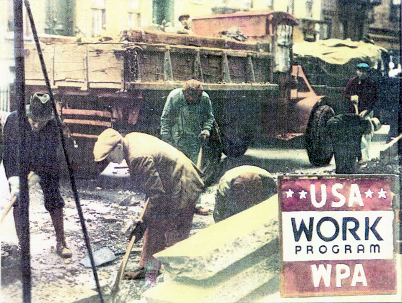 WPA poster 1935 USA, color photo